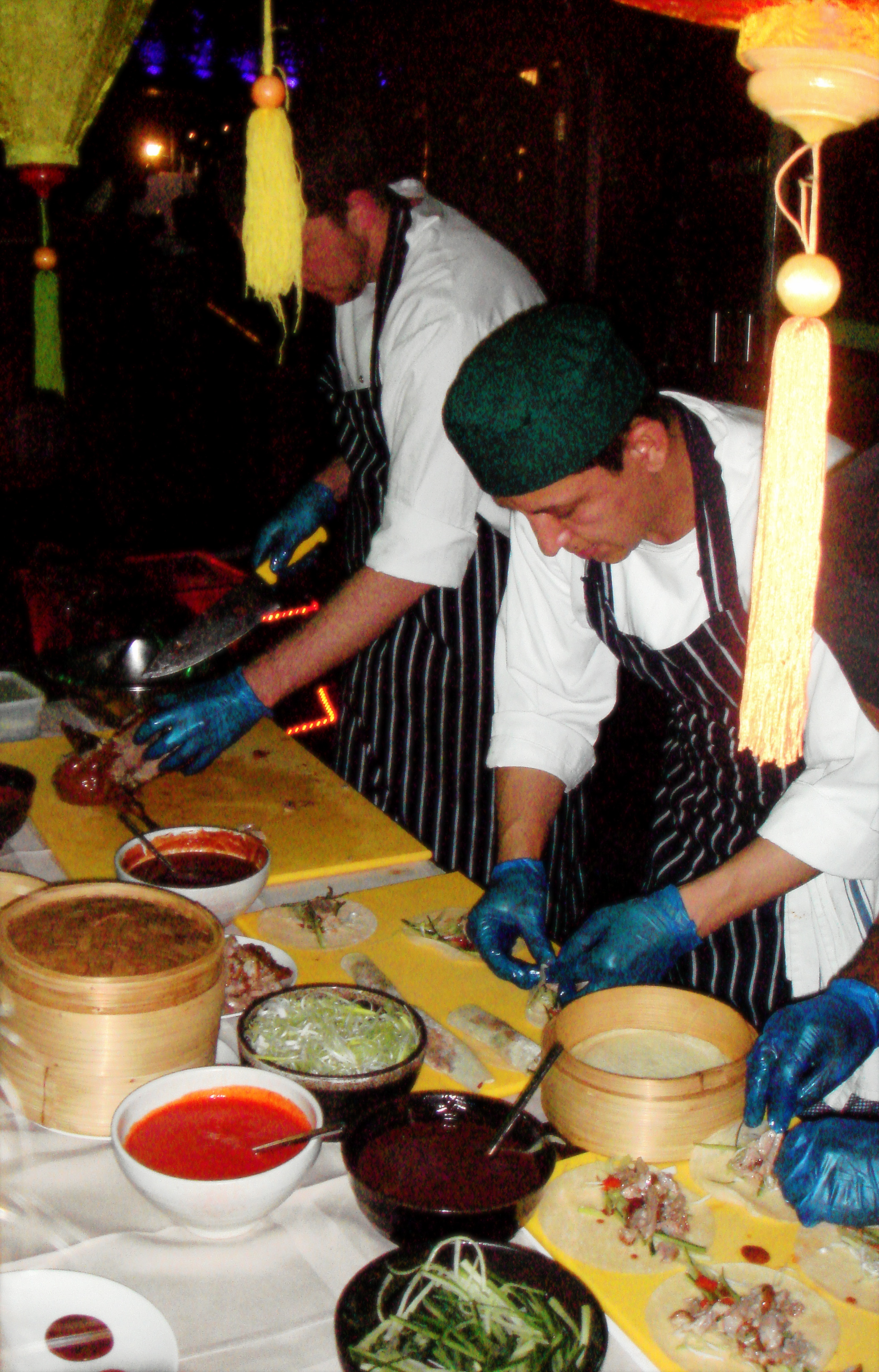 Gilgamesh restaurant, Camden London